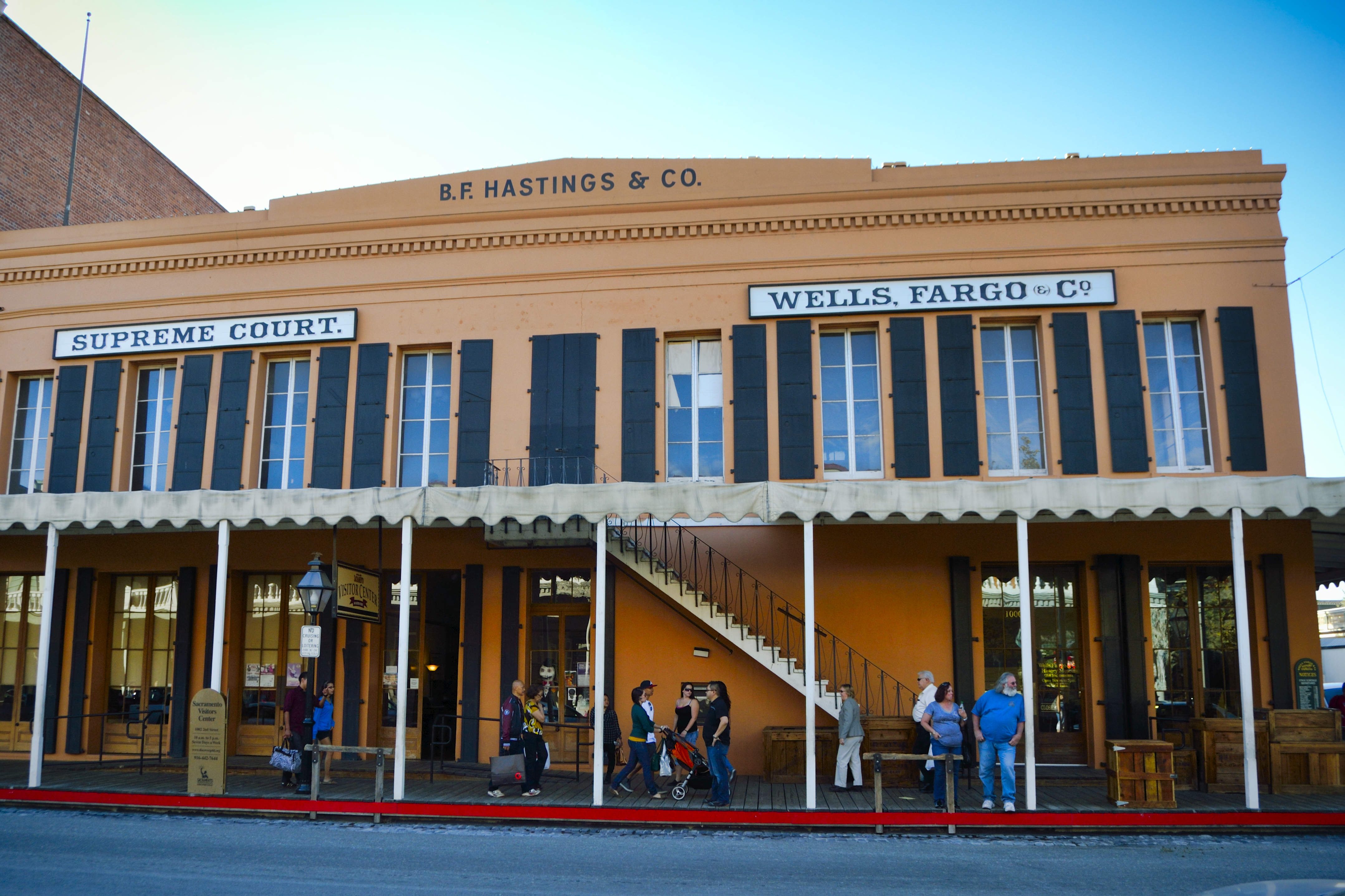 The B. F. Hastings Building in Sacramento, California, served both the California Supreme Court and the Pony Express.